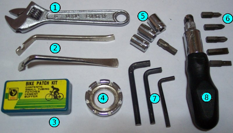 See also Image:BicycleRepairTools.JPG without description numbers